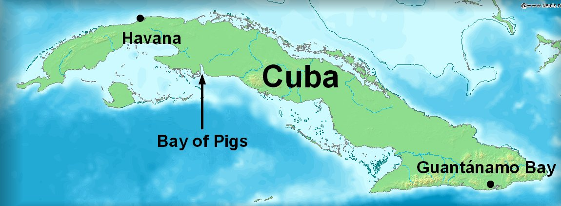 Map of Cuba, showing the Bay of Pigs